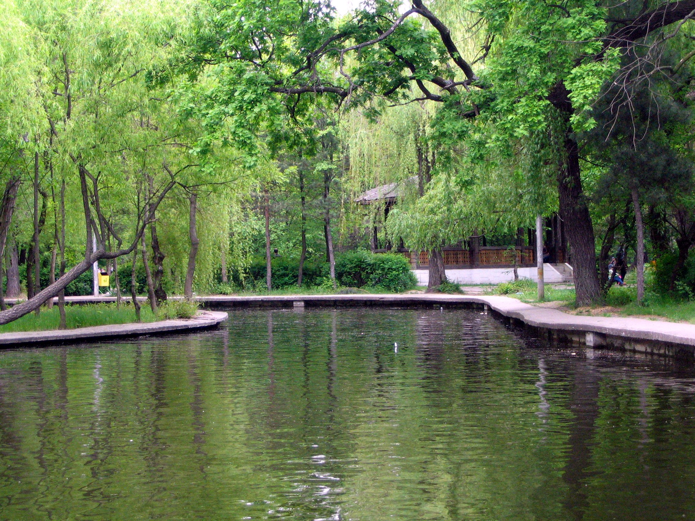 The lake in the Crâng Park, Buzău, România